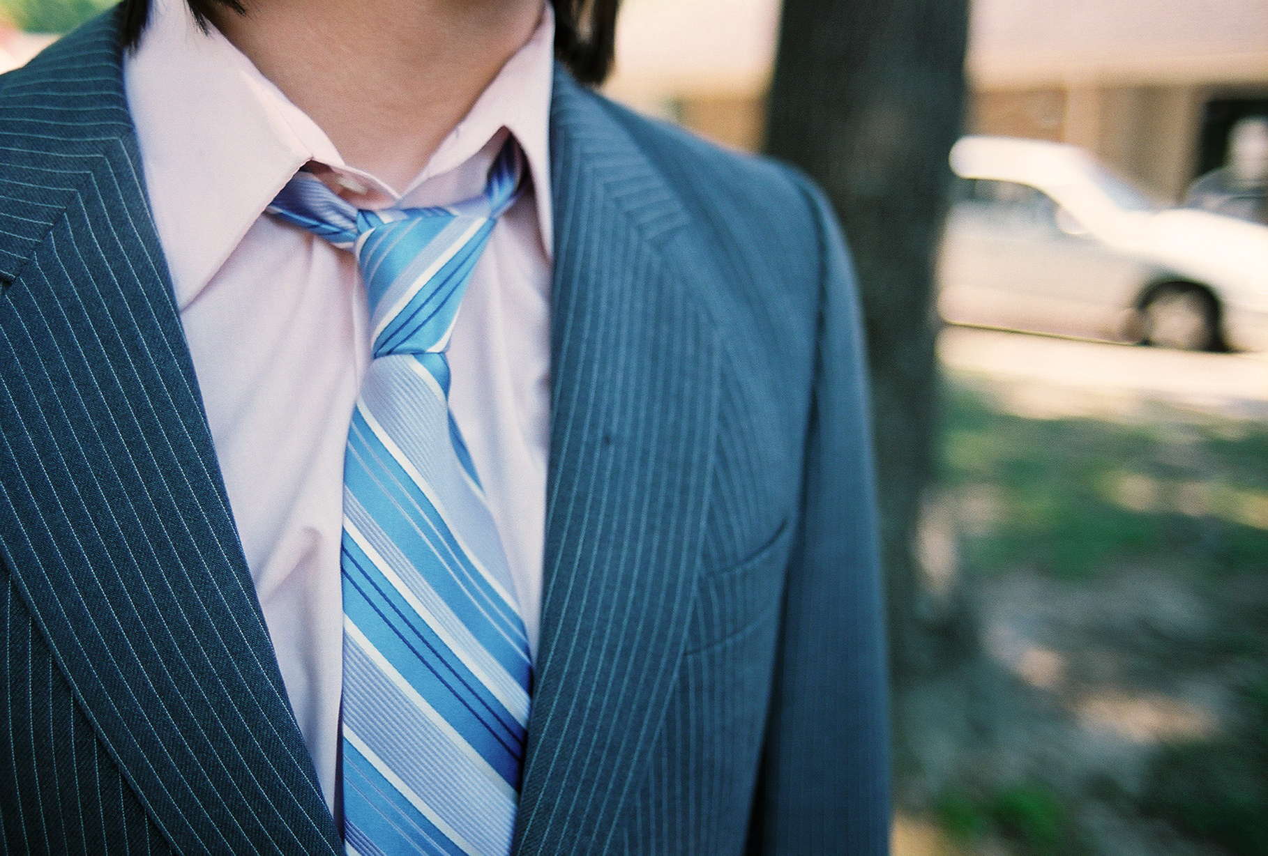 A torso and striped necktie.